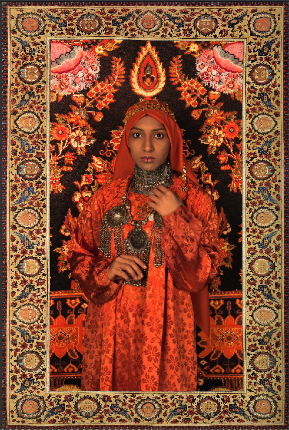 This appropriated image depicts Saint Thomas as he was the first saint to bring Christianity to India.